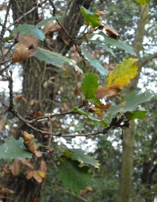 Quercus cerrioides leaves. Collserola, Catalonia. I made the photo on january 21st 2007.